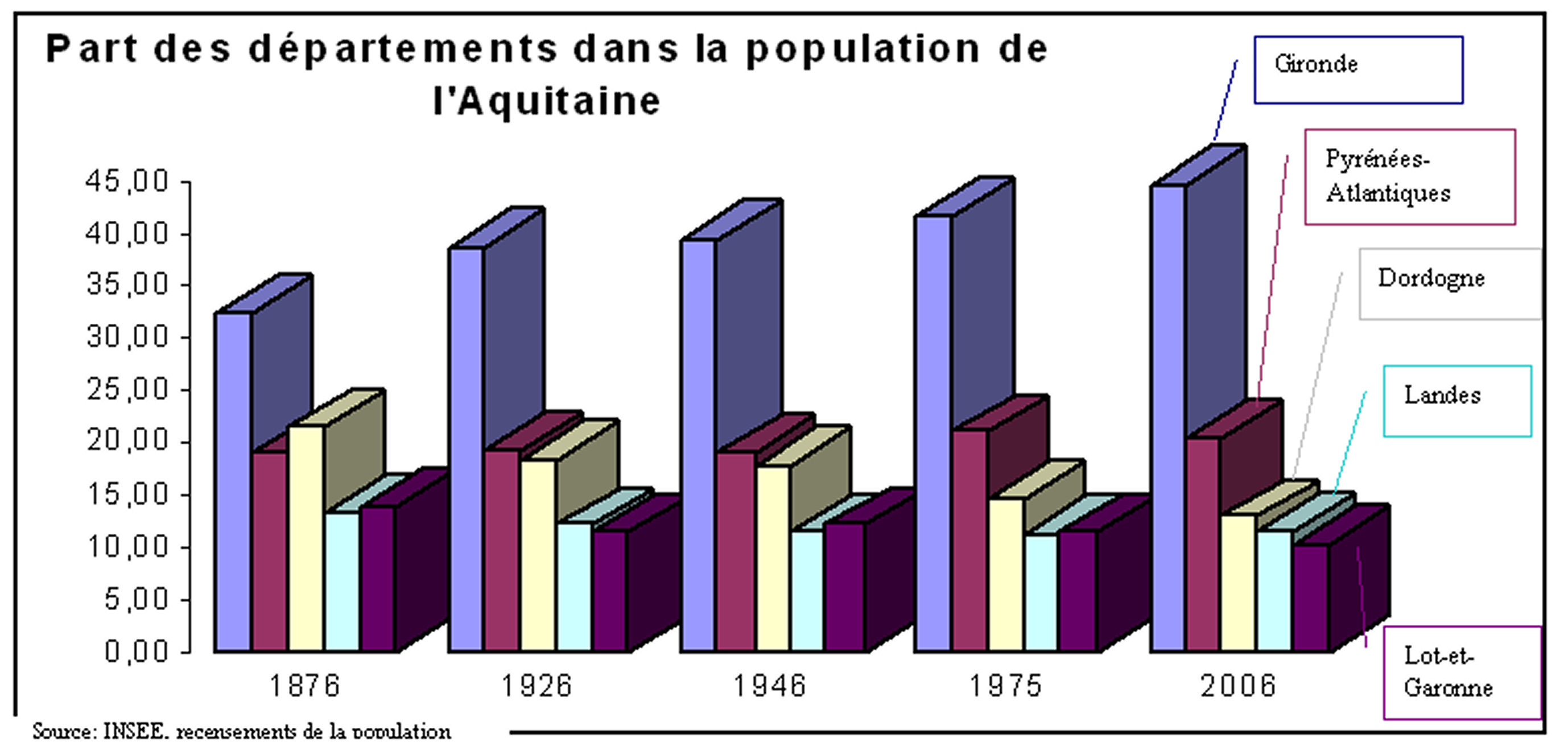 Part of the departments in the evolution of the population in Aquitaine (1876-2006)